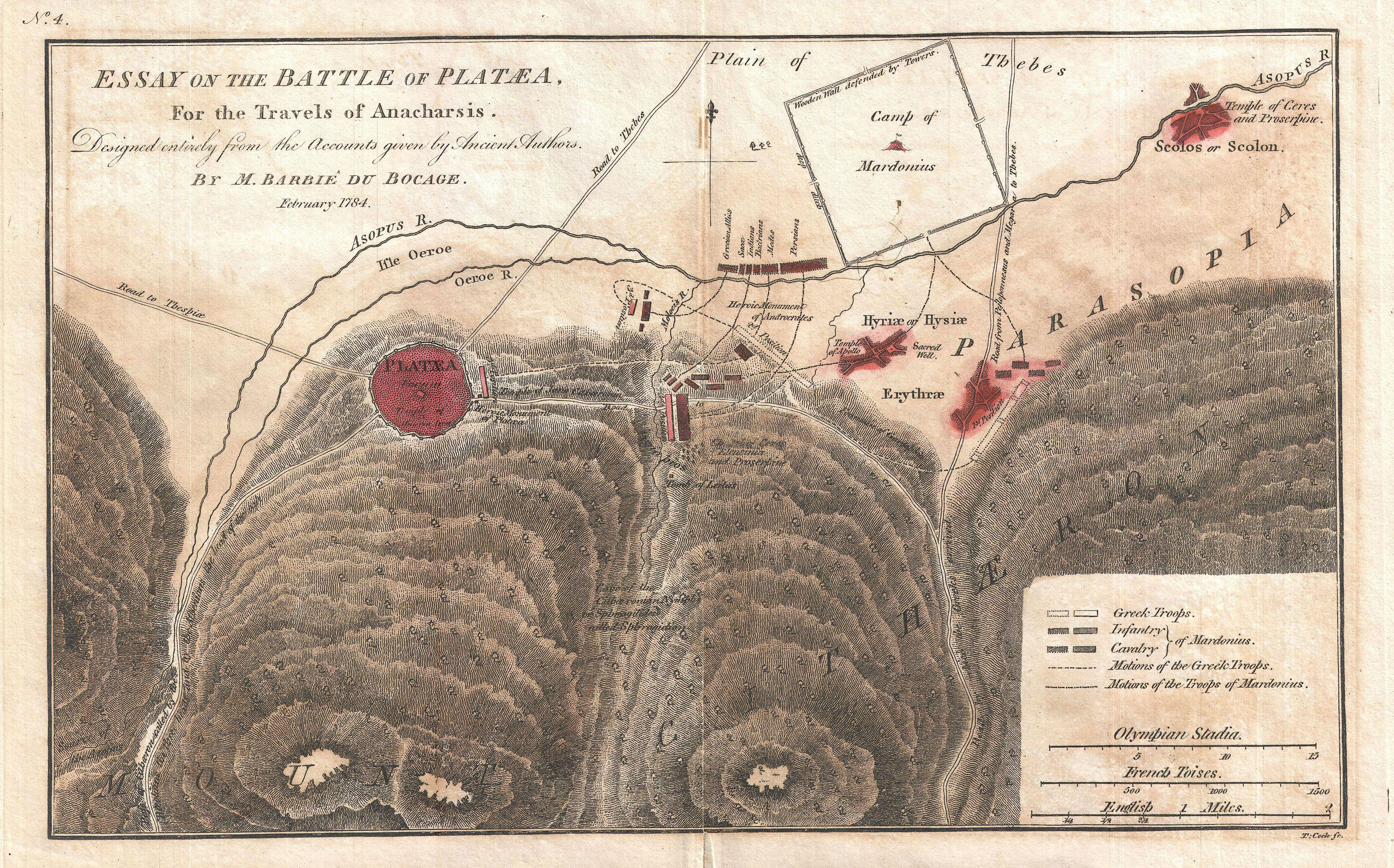 This is a fascinating 1784 color map showing the Battle of Plataea by Barbie du Bocage. The battle of Plataea occurred in 479 BC and was the last battle in the second Persian invasion of Greece. It took place near the city of Plataea in Boeotia, and was fought between an alliance of the Greek city-states, including Sparta, Athens, Corinth and Megara, and the Persian Empire of Xerxes I. The map features Mount Cithaeron, where the tide of the battle turned. Shows the motions of the army during the battle. It also notes the camp of Madonius, the Temple of Ceres, Road to Thespiae, Temple of Apollo, and other important landmarks. Includes a key in the bottom right quadrant. Prepared by M. Barbie de Bocage in 1786 to illustrate the Travels of Anarcharsis .